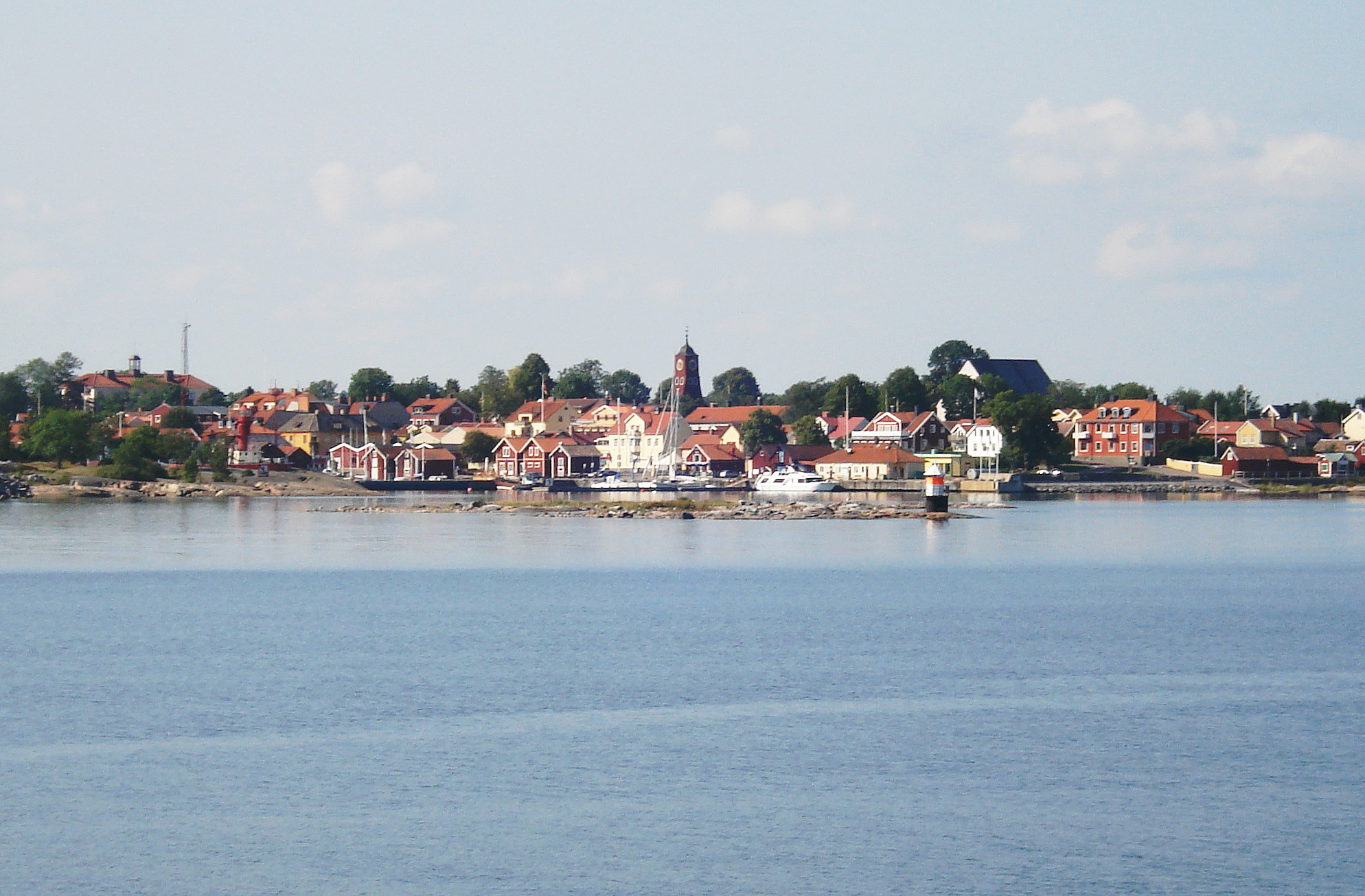 Öregund seen from the ferry between Gräsö and Öregrund